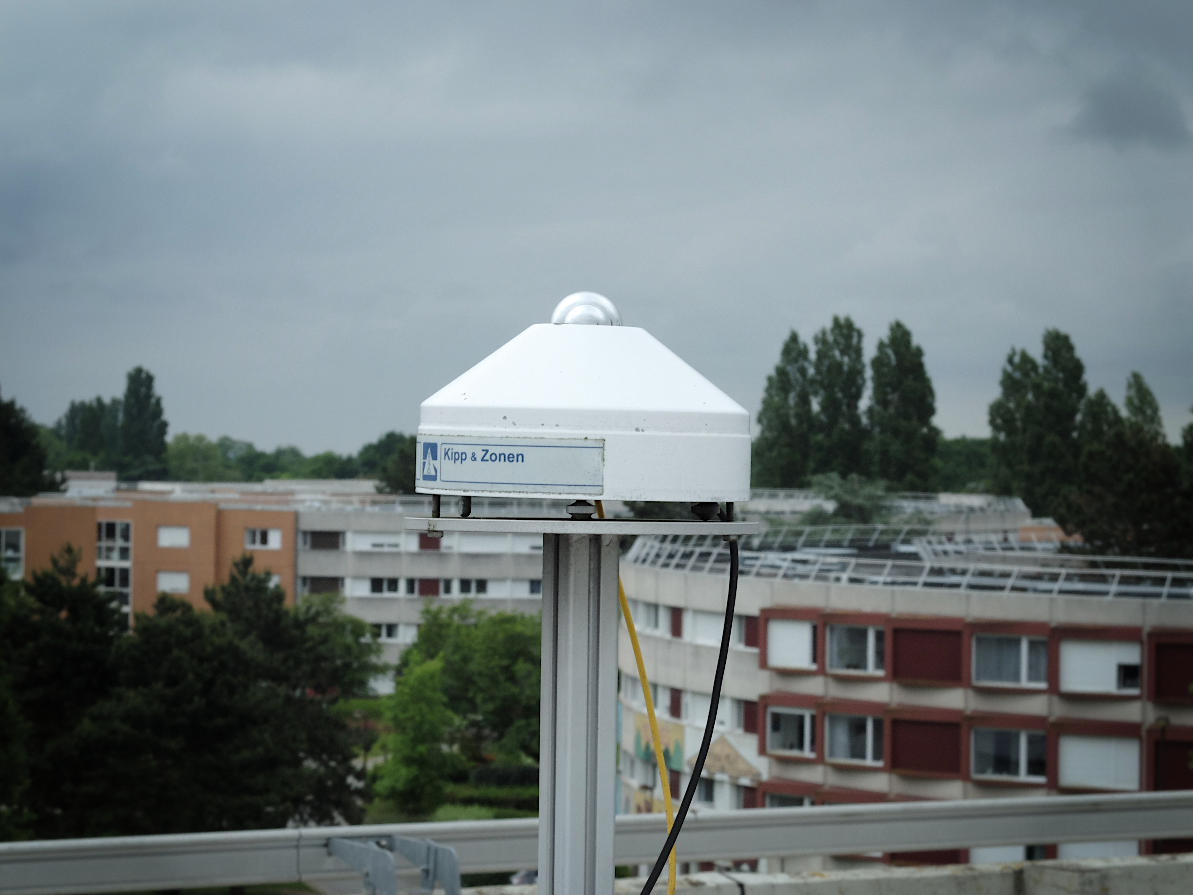 Pyranometer - a meteorological instrument for solar radiation measurements - at SIRTA (Palaiseau, Francja).